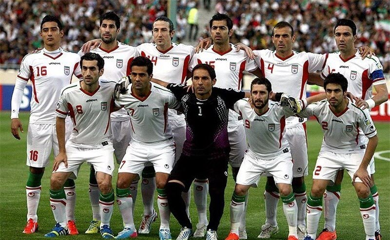 هفت بازیکن استقلالی در تیم ملی ایران